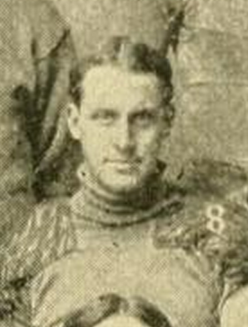 G.O. Dietz